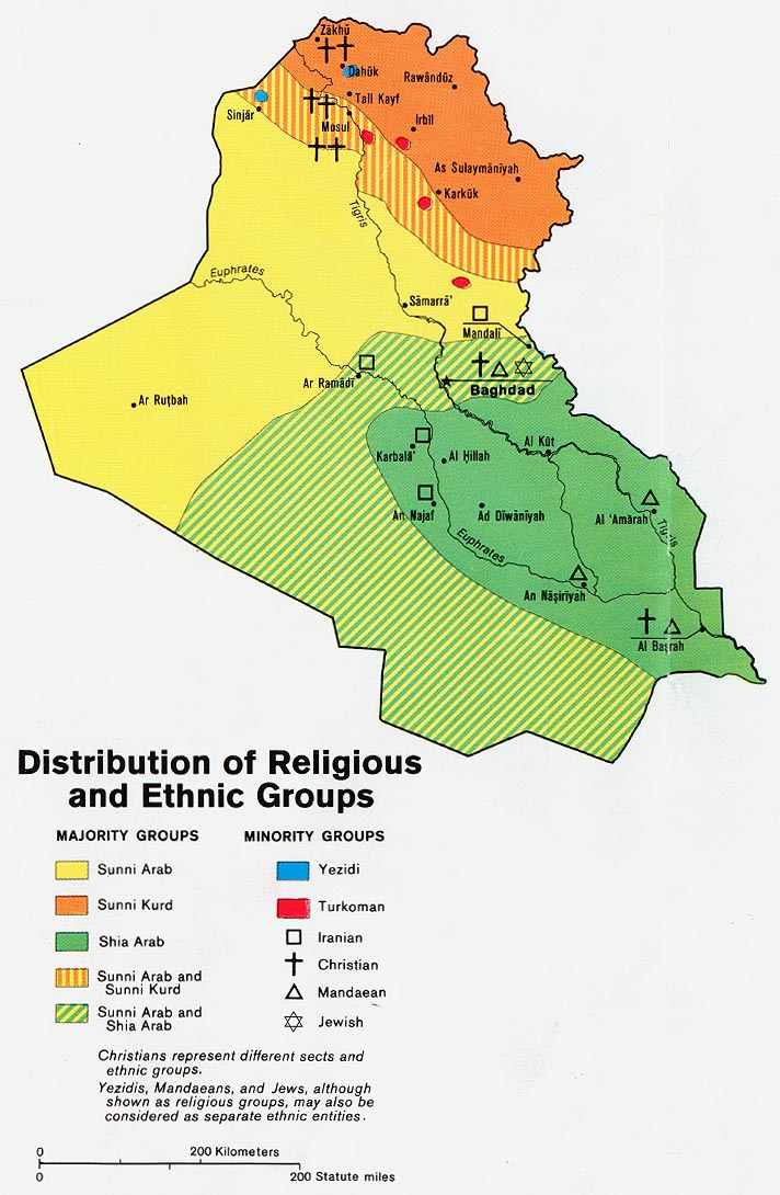 Distribution of Religious and Ethnic Groups (Iraq 1978)